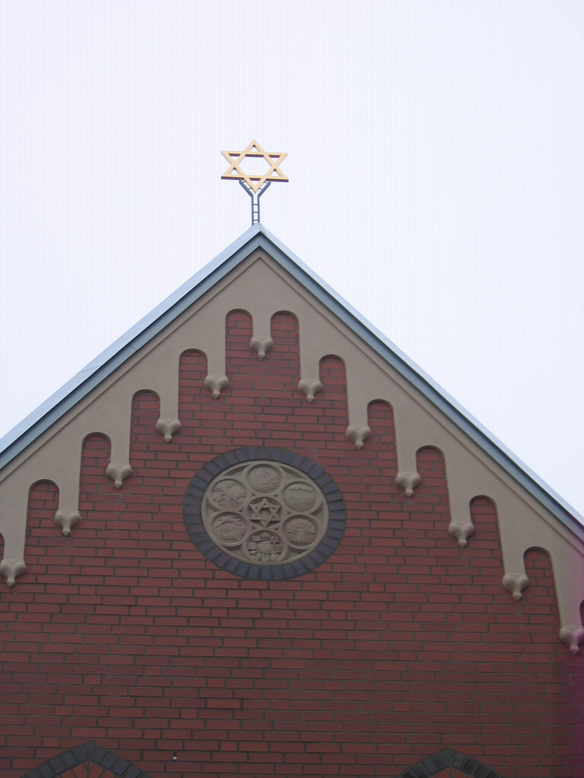 in Herford, District of Herford, North Rhine-Westphalia, Germany.